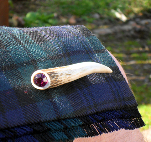 the kilt pin is used to add weight to the outer lower edge of the apron to stop it from falling or blowing open.